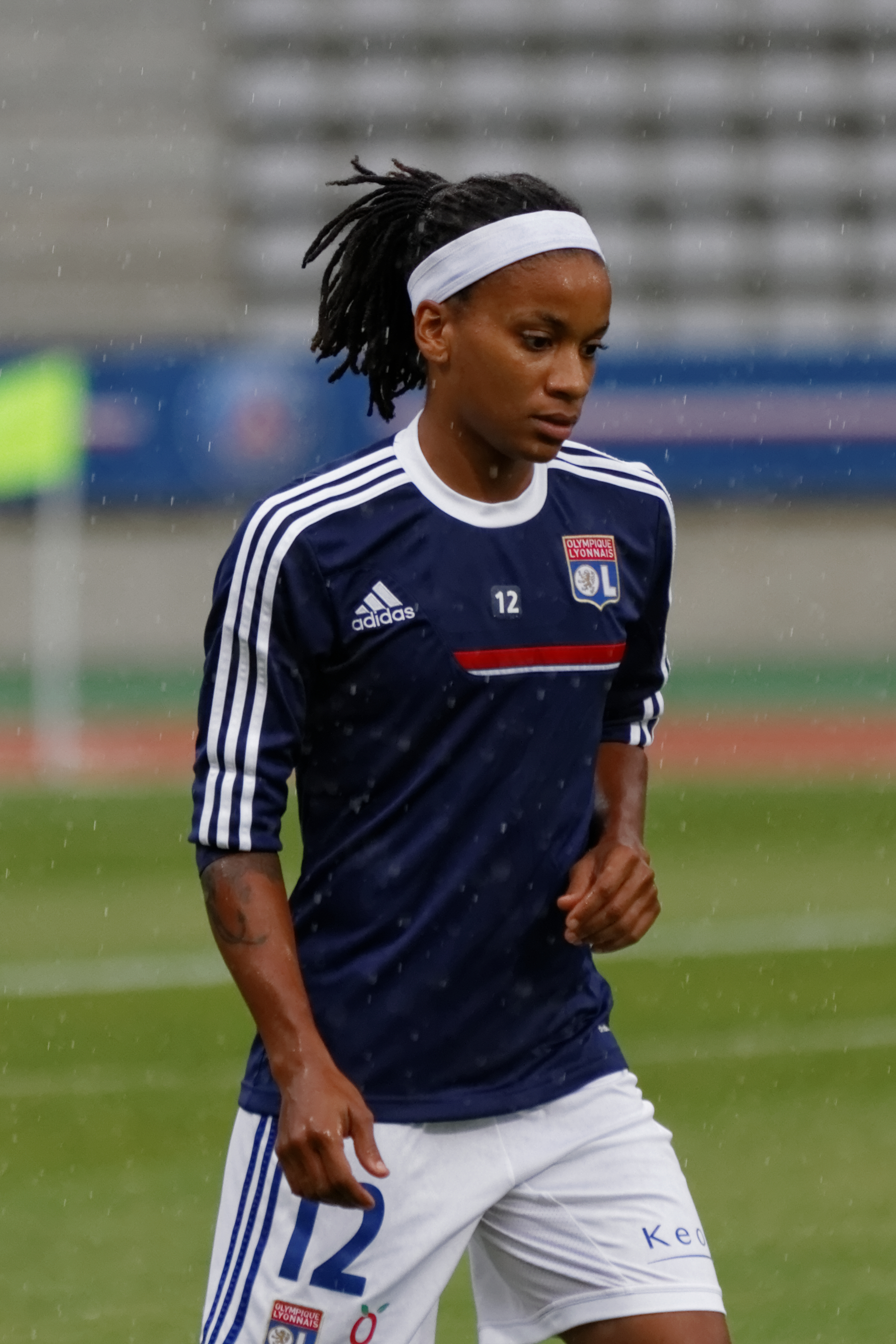 PSG-Lyon, September 29th, 2013.